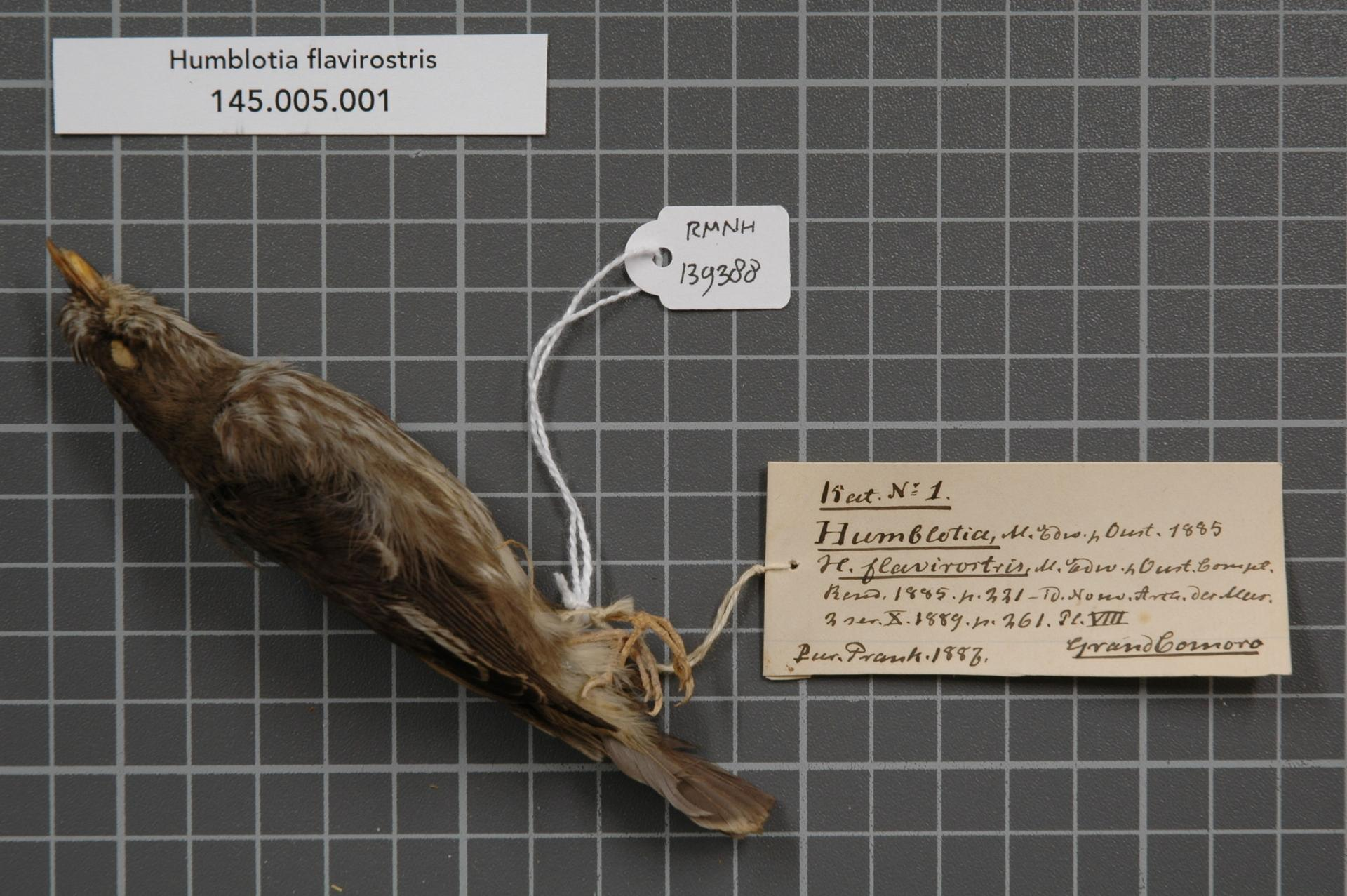 Humblotia flavirostris Milne-Edwards and Oustalet, 1885